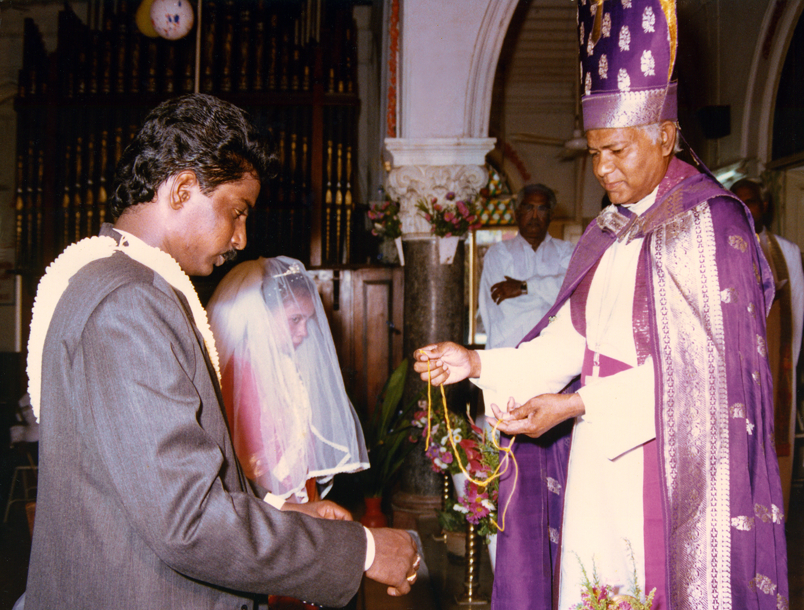 The 9. Bishop of Tranquebar Jubilee Gnanabaranam Johnson of the Tamil Evangelical Lutheran Church of Tamil Nadu hands over the Thali during the wedding ceremony to the bridegroom who will put it around the neck of the bride.